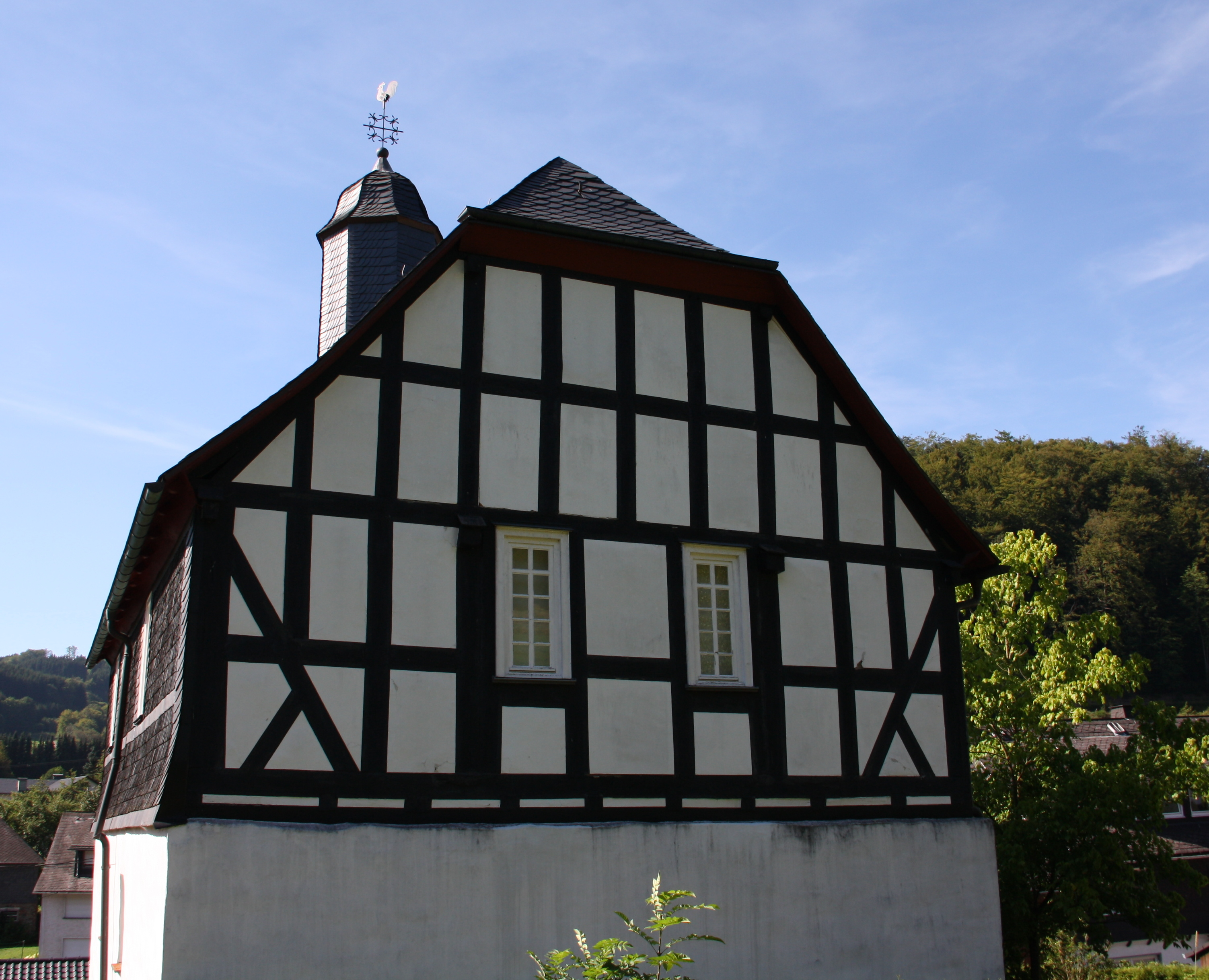 Alertshausen Church